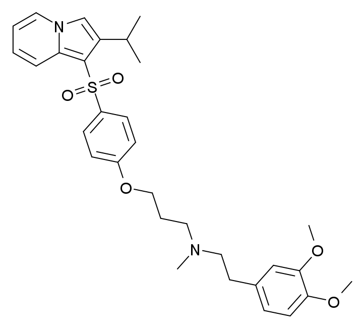 Structure of fantofarone